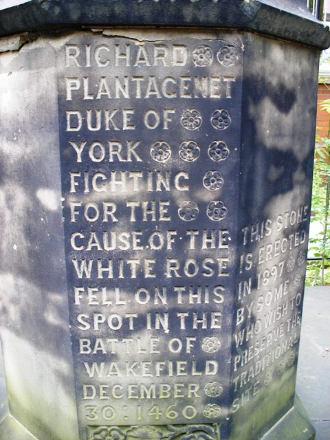 Richard of York Memorial Inscription